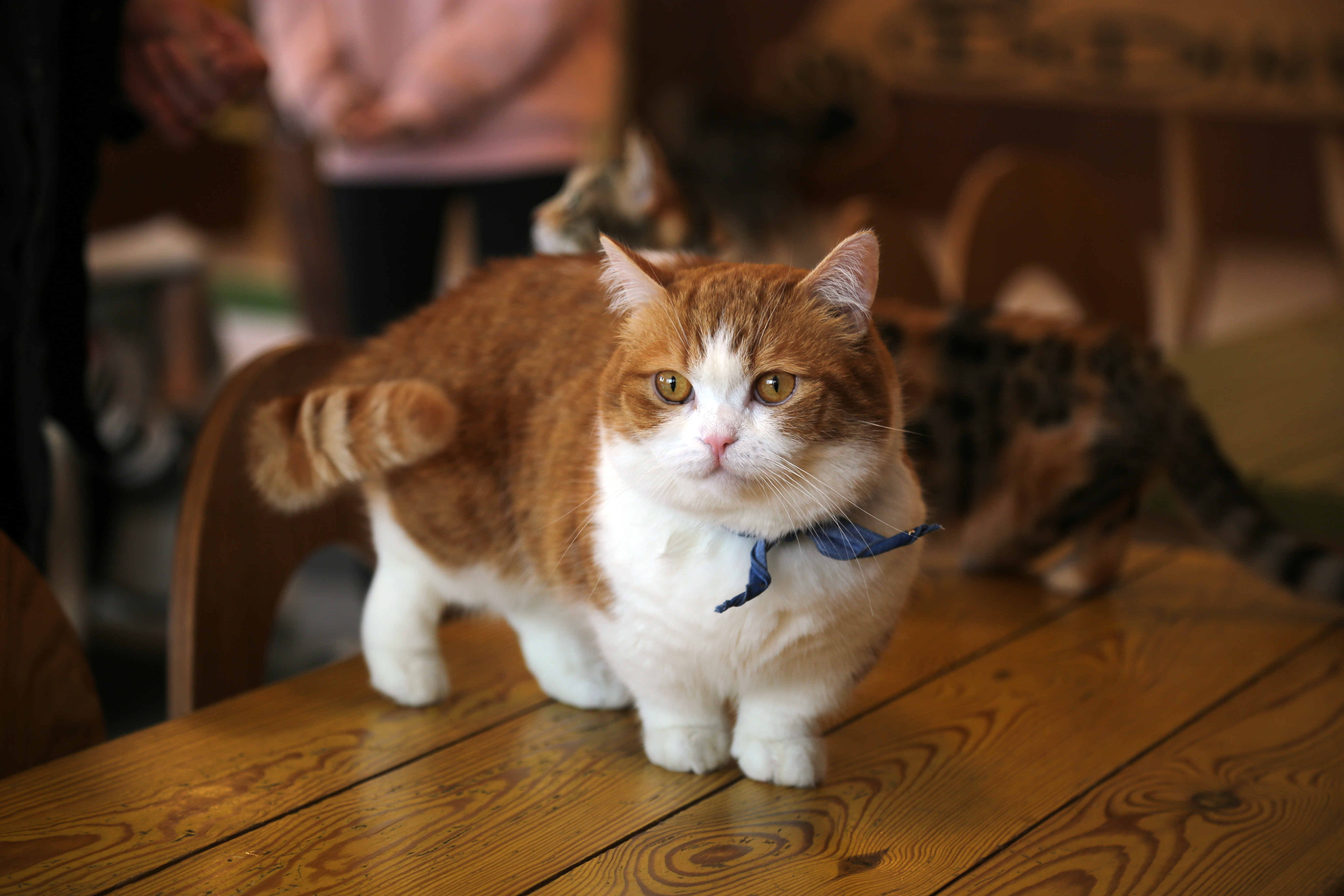 munchkin cat